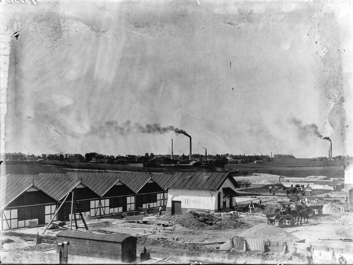 Vanløse Vandværk on Nordvestvej (now Borups Allé) in Copenhagen, Denmark